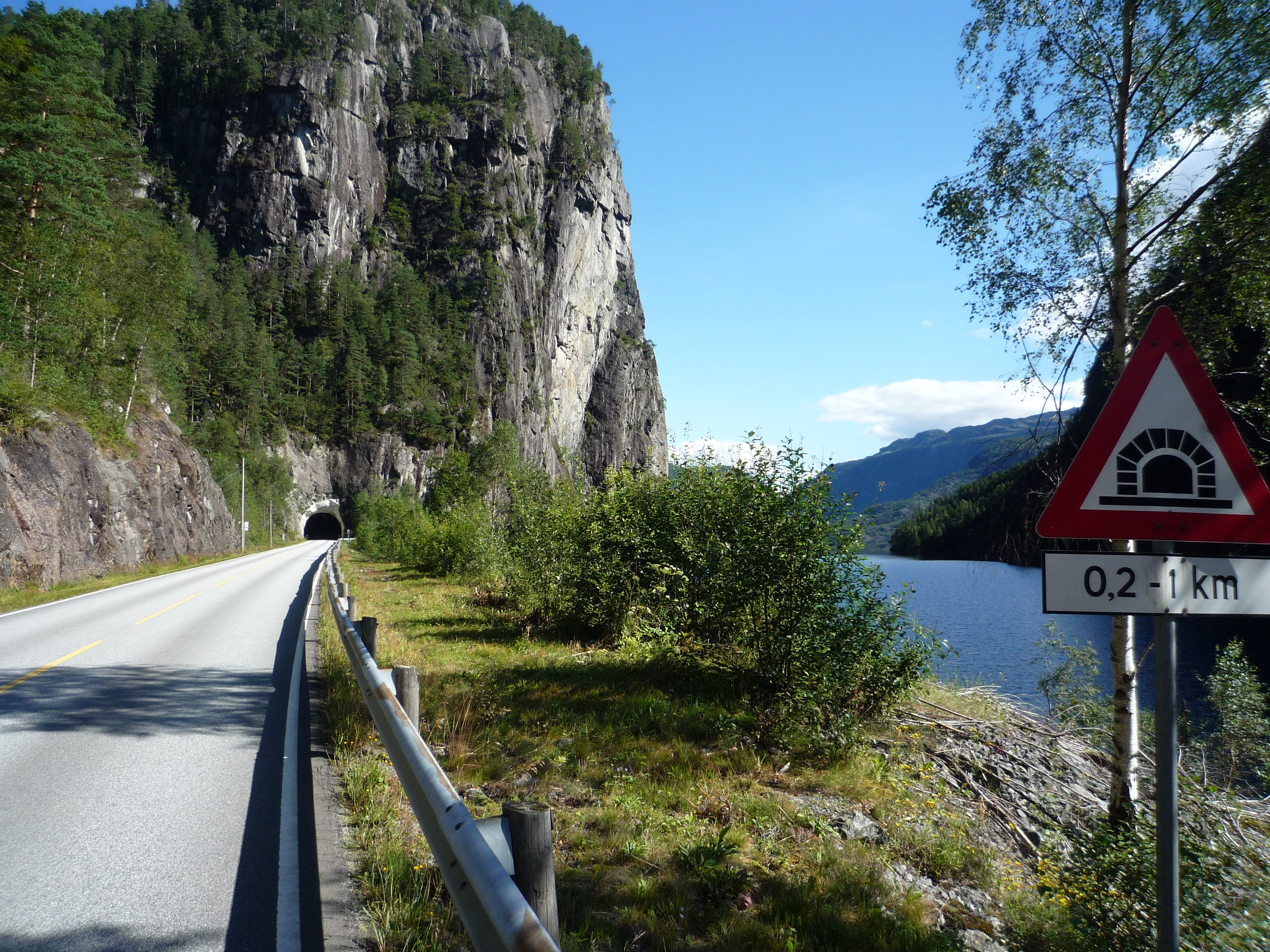 One of many, many tunnels en route.